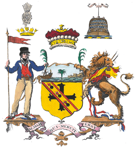 Contemporary drawing depicting the arms of Admiral Nelson.